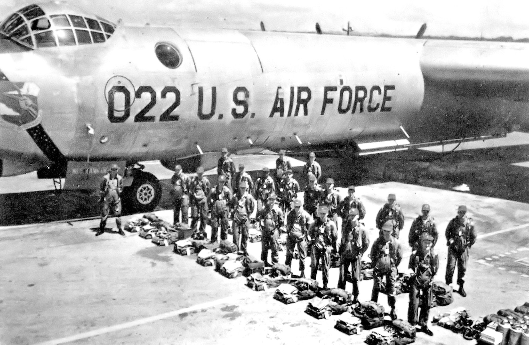 Crew of a 72d Strategic Reconnaissance Wing RB-36 Peacemaker at Ramey AFB, Puerto Rico, about 1954